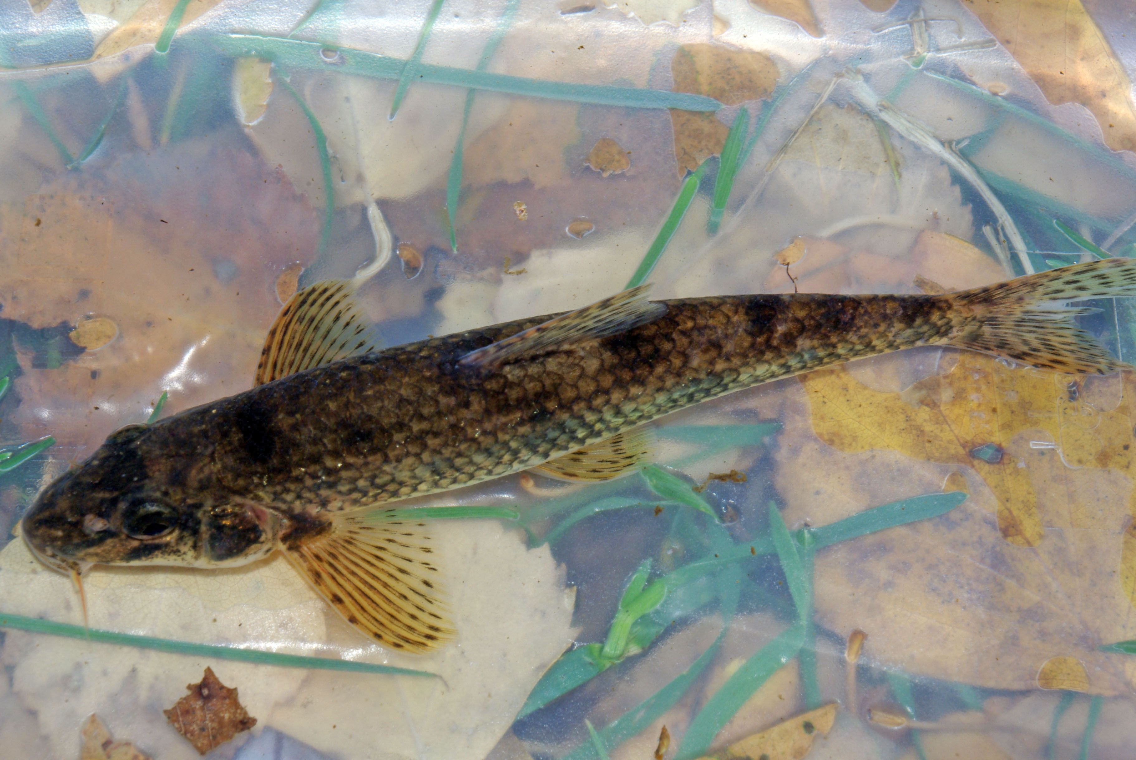 Gobio lozanoi. River Douro, Soria (Spain)